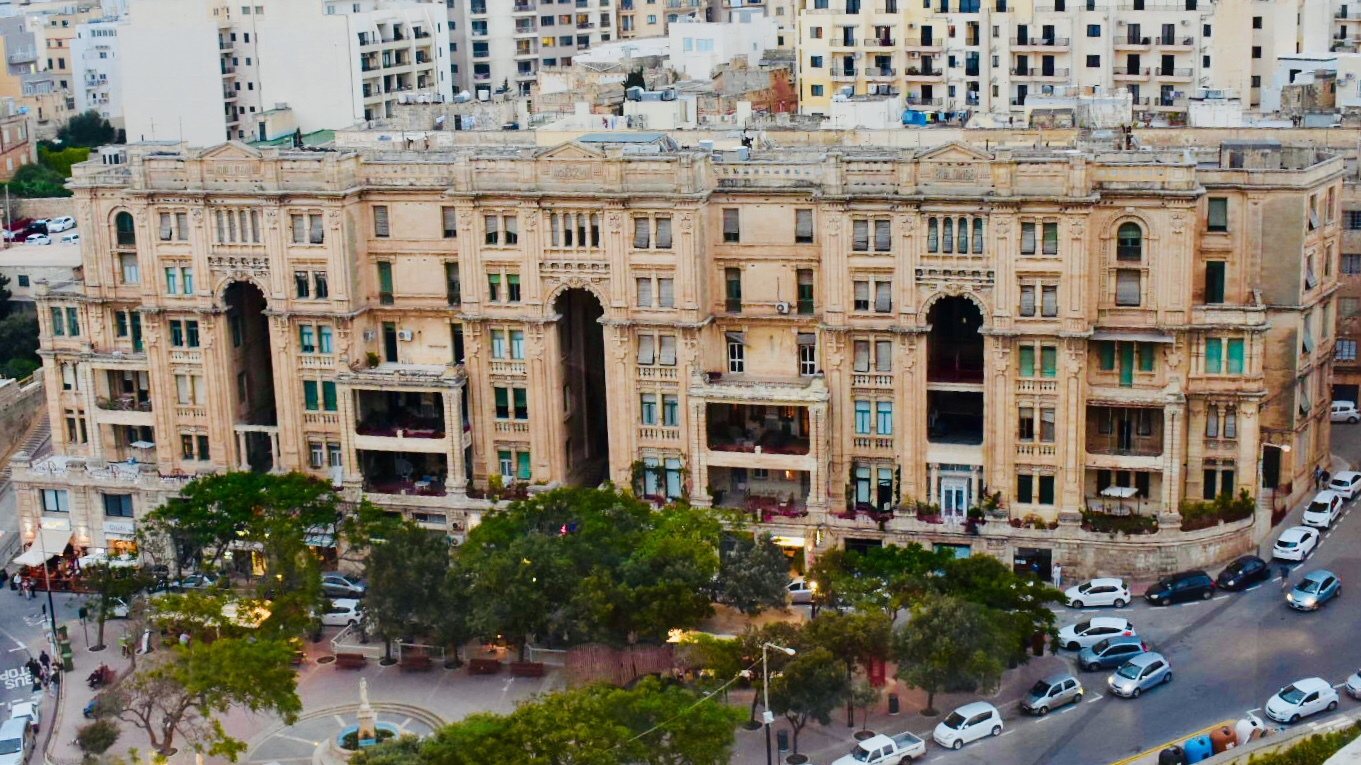 Hotel view of Balluta Buildings